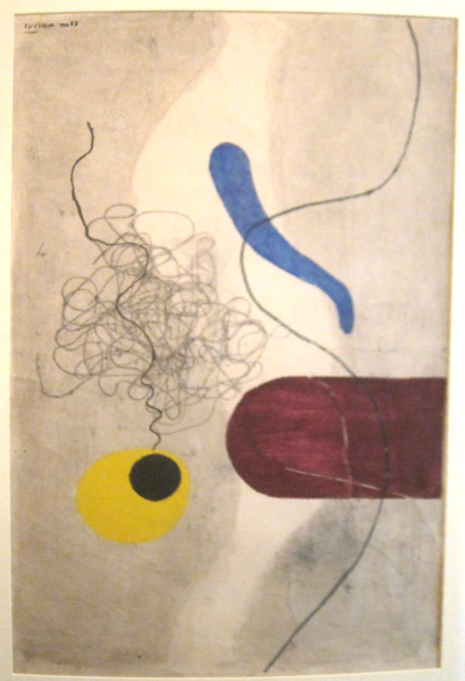 Lyric No. 12: Uncertain Hope by Onchi Kōshirō, 1951, woodblock print, Honolulu Museum of Art